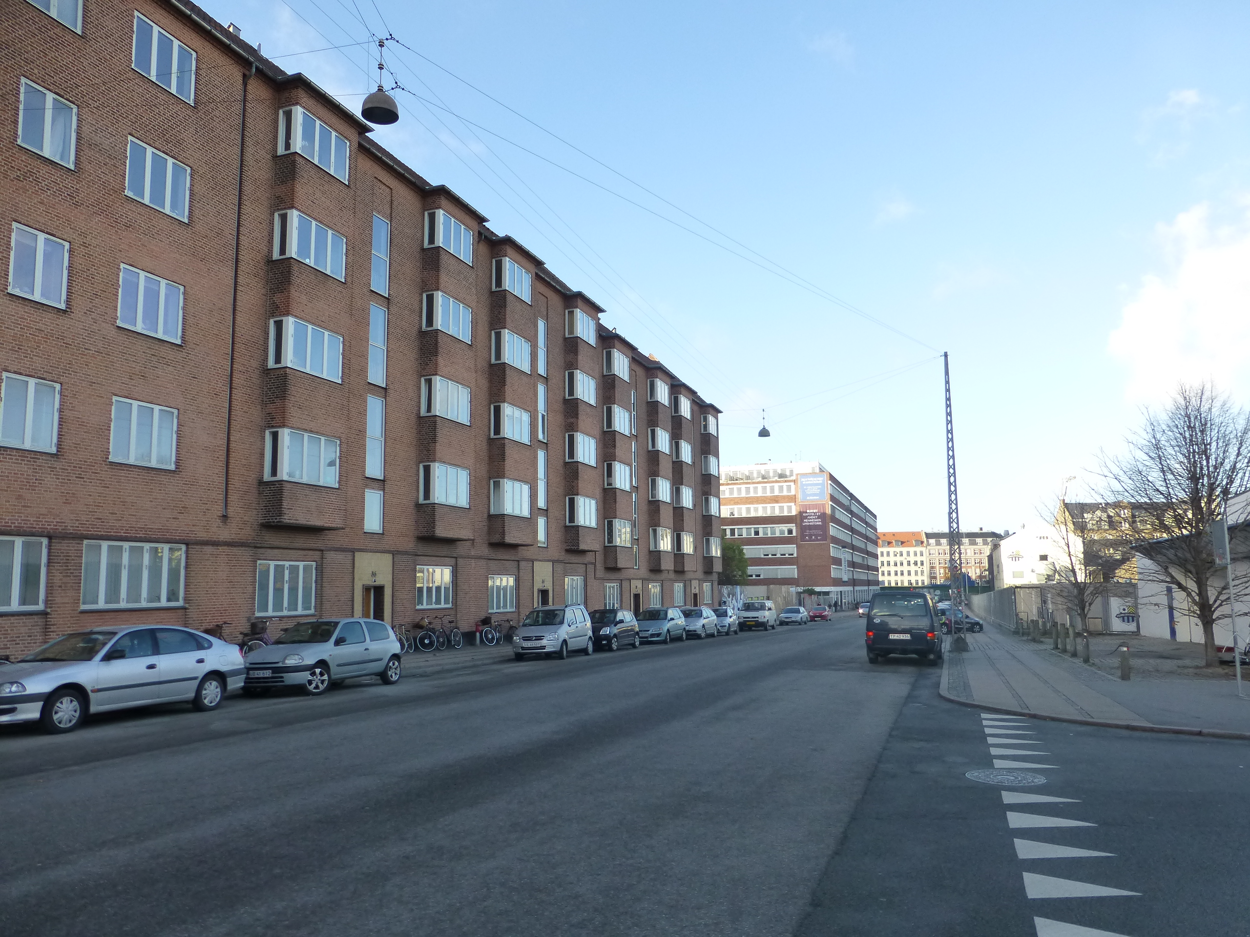 The street Skelbækgade in Vesterbro in Copenhagen.